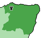 Image showing the location of Balvenie Castle within Grampian, Scotland